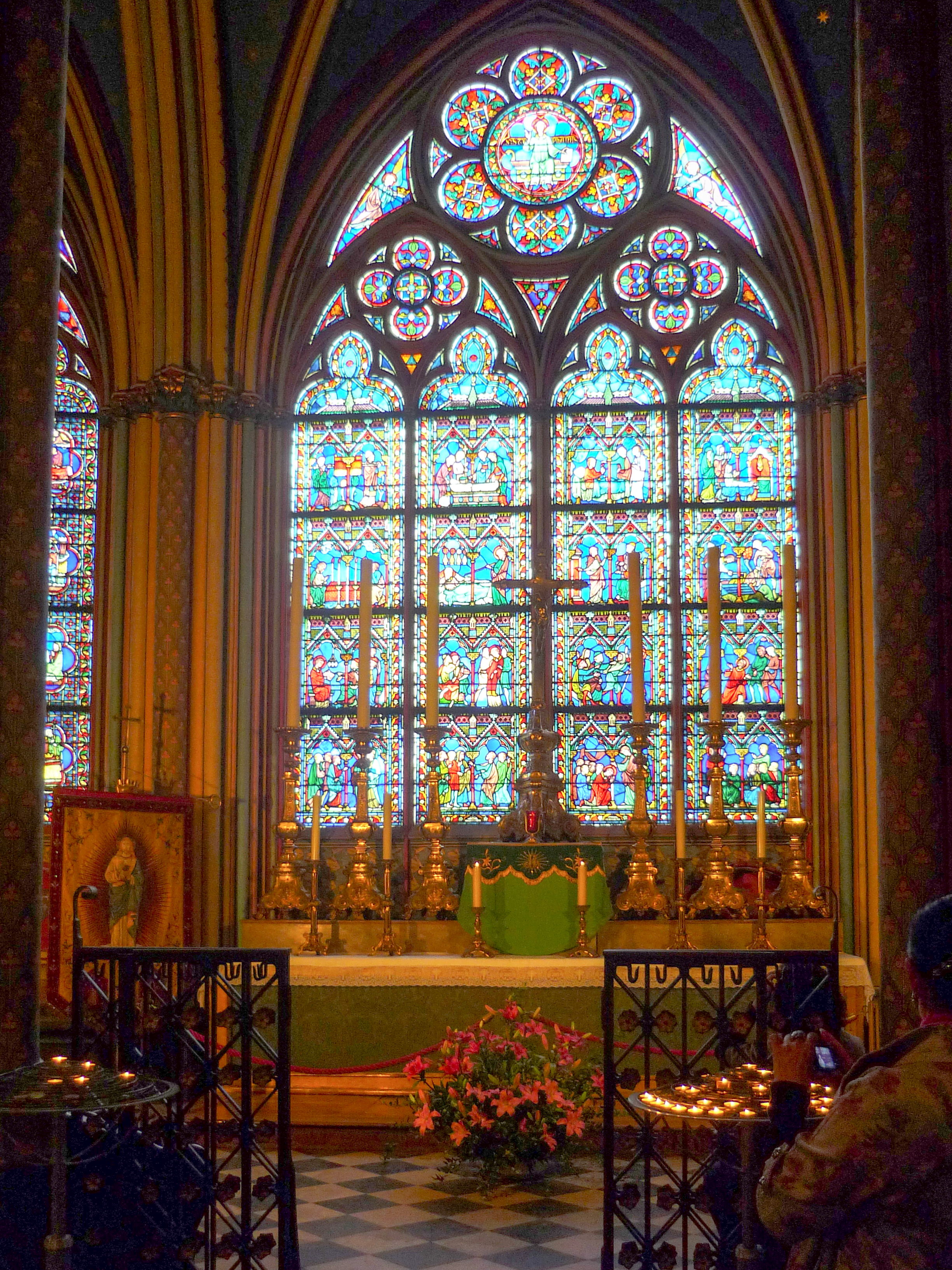 A side altar in the ambulatory of Notre Dame in Paris.